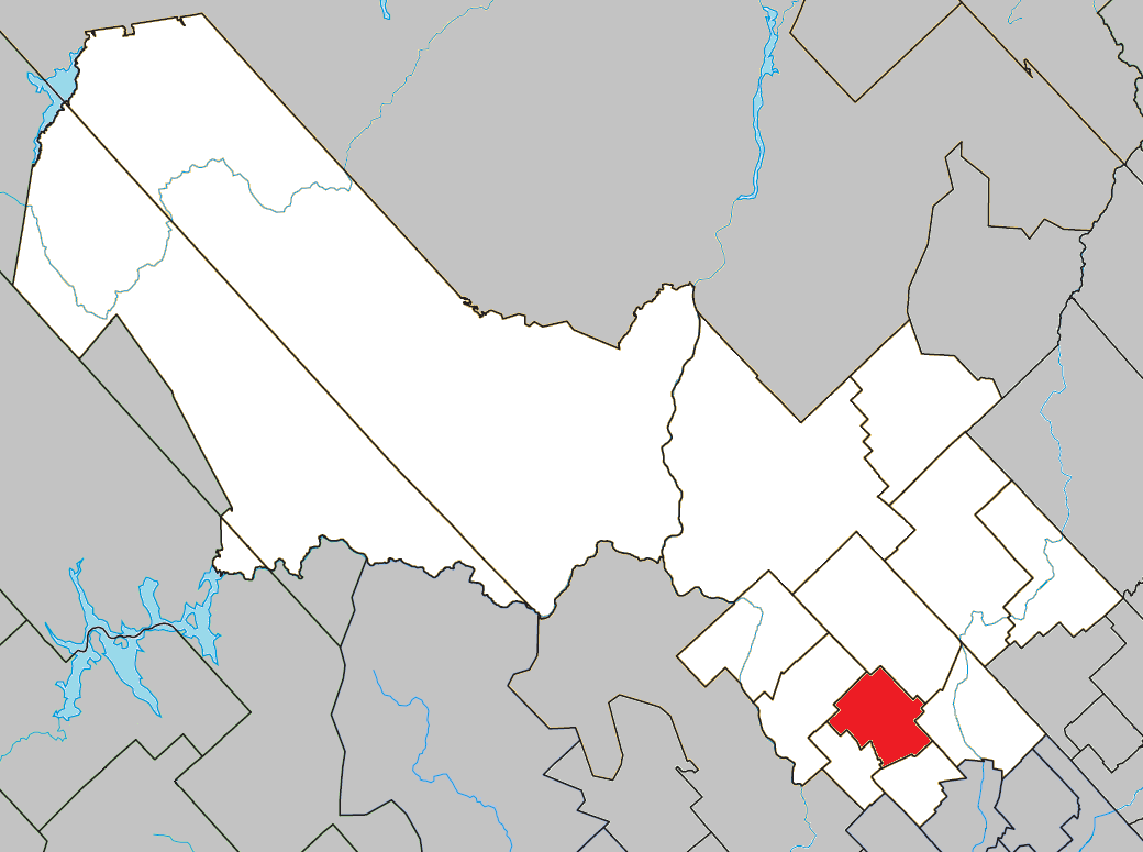 Location of Saint-Tite, Quebec within Mékinac Regional County Municipality.